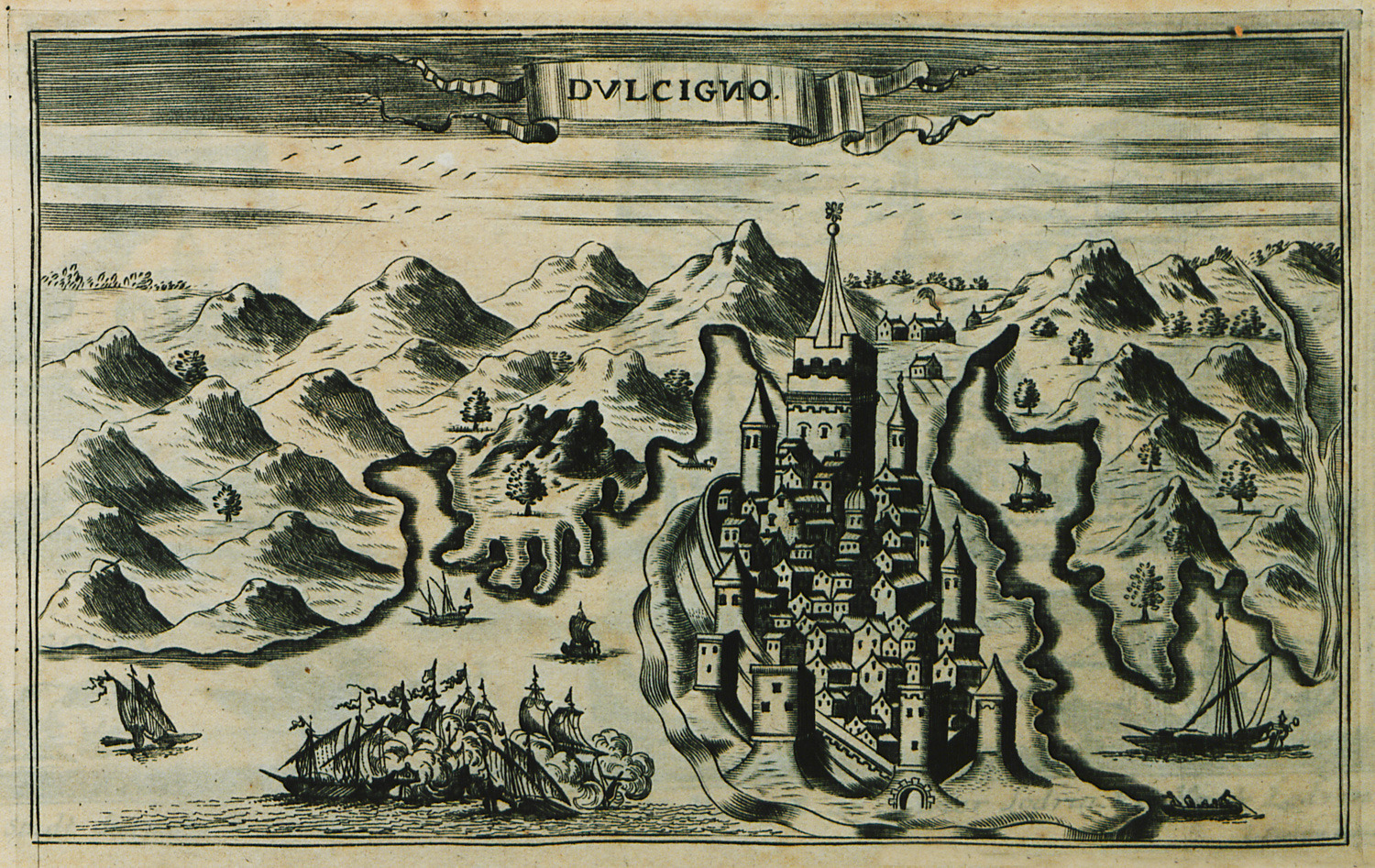 Jacob Peeters. Description des principales villes, havres et isles du golfe de Venise du coté oriental. Comme aussi des villes et forteresses de la Moree, et quelques places de la Grèce, Antwerp, Sur le marché des vieux Souliers, 1690.